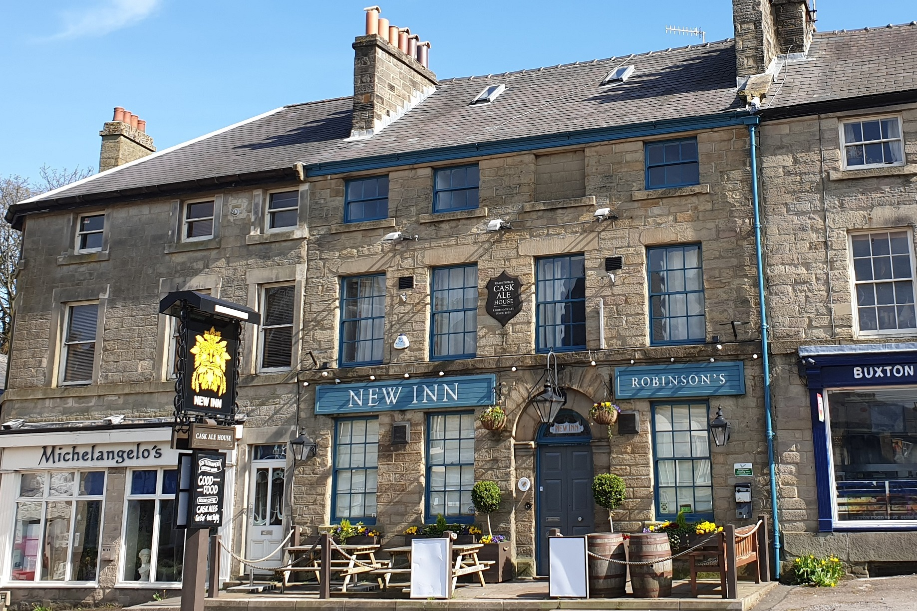 New Inn at Buxton